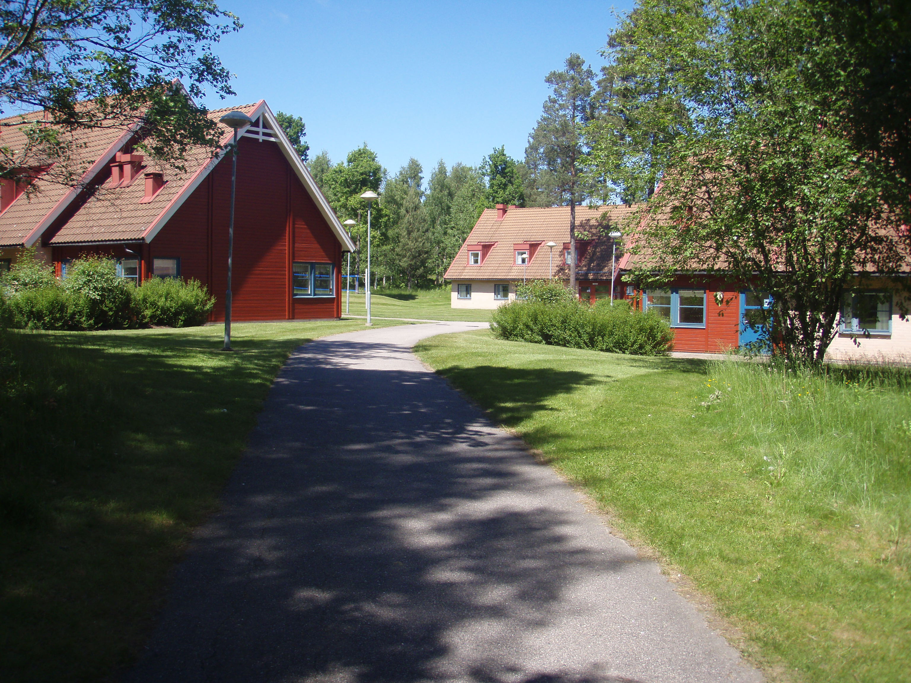 A picture of Naturbruksgymnasiet Svenljunga